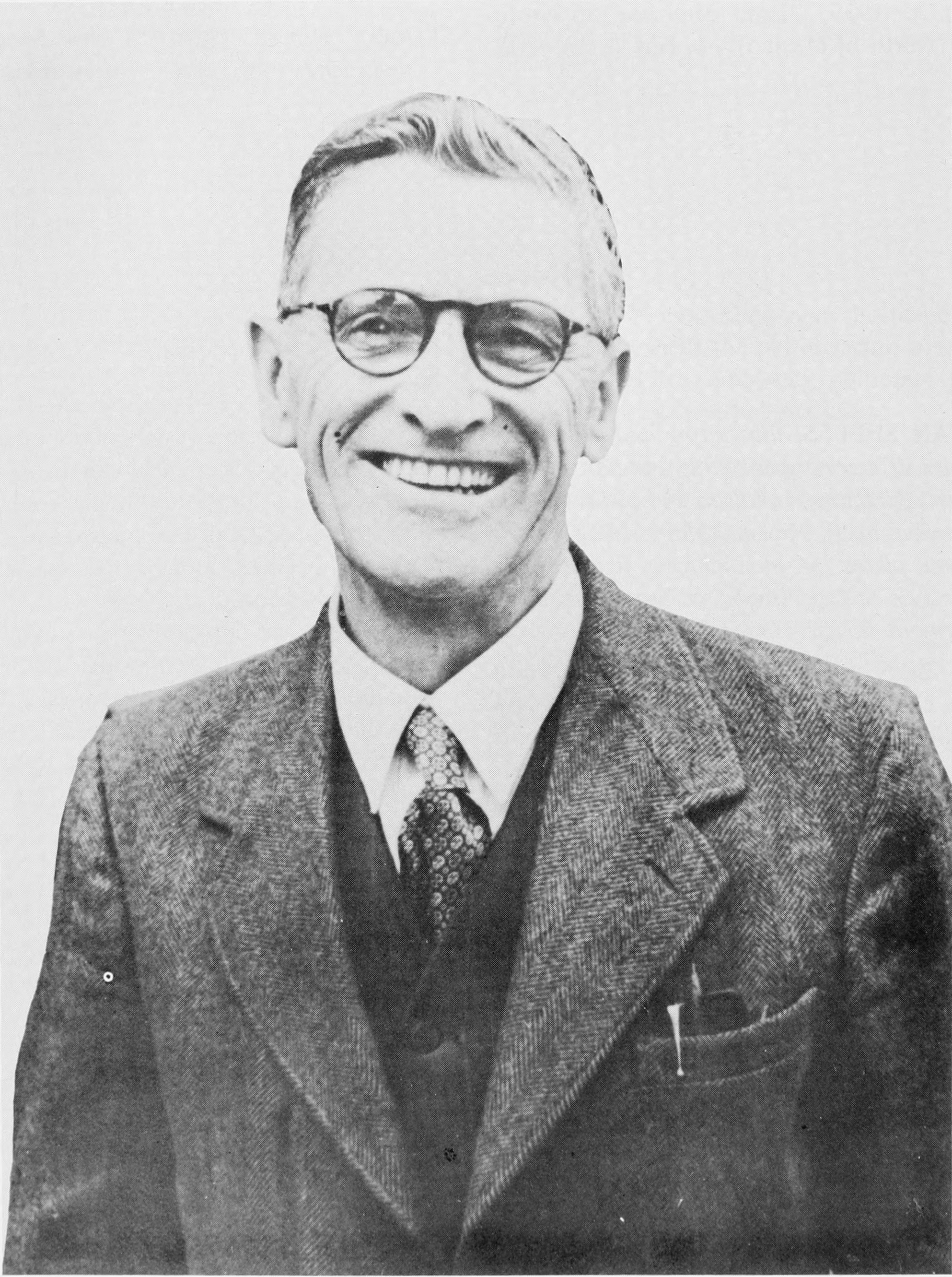 Photo of Tom Iredale taken in September 1938.